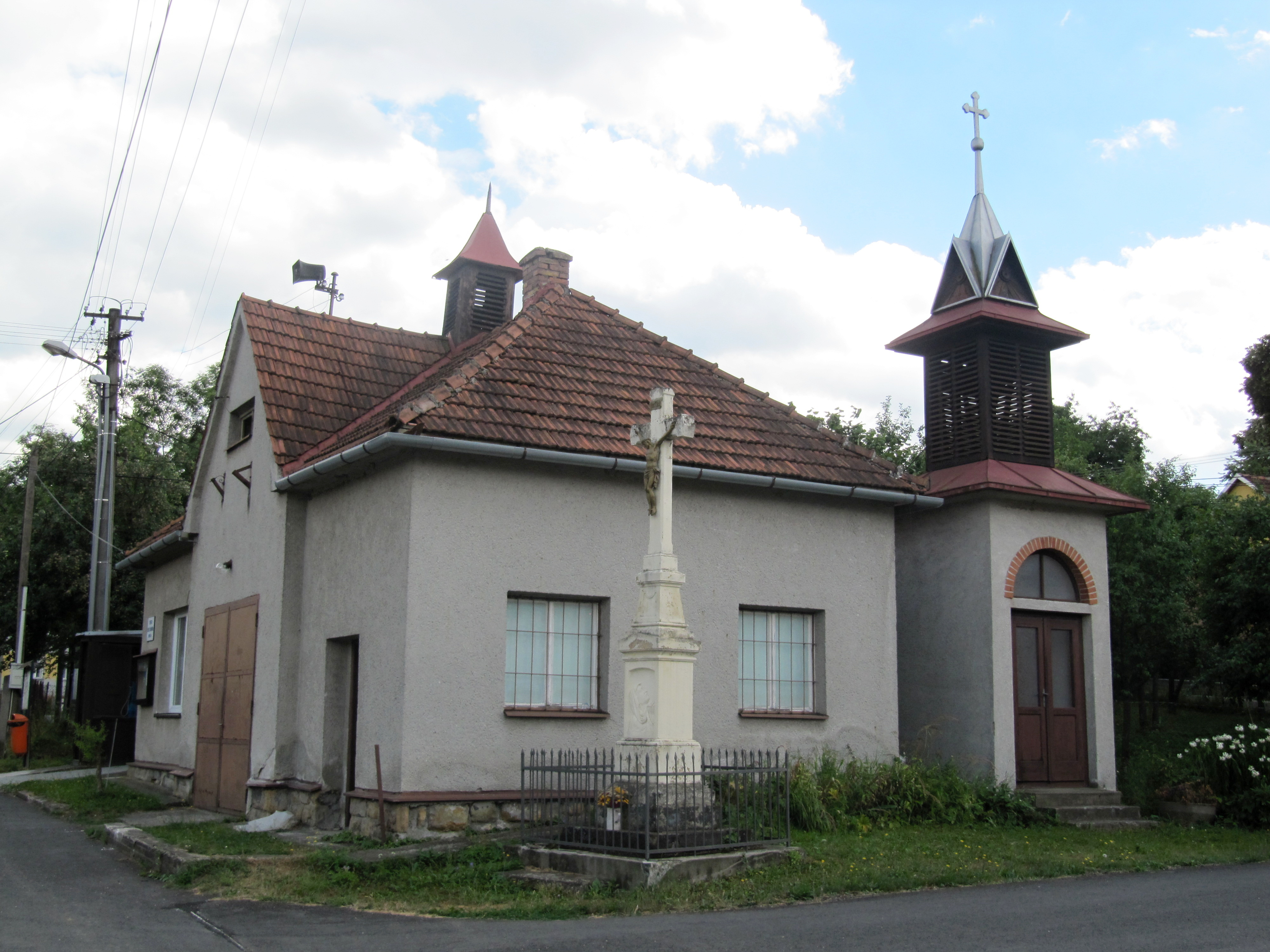 Křekov, Zlín District, Czech Republic.